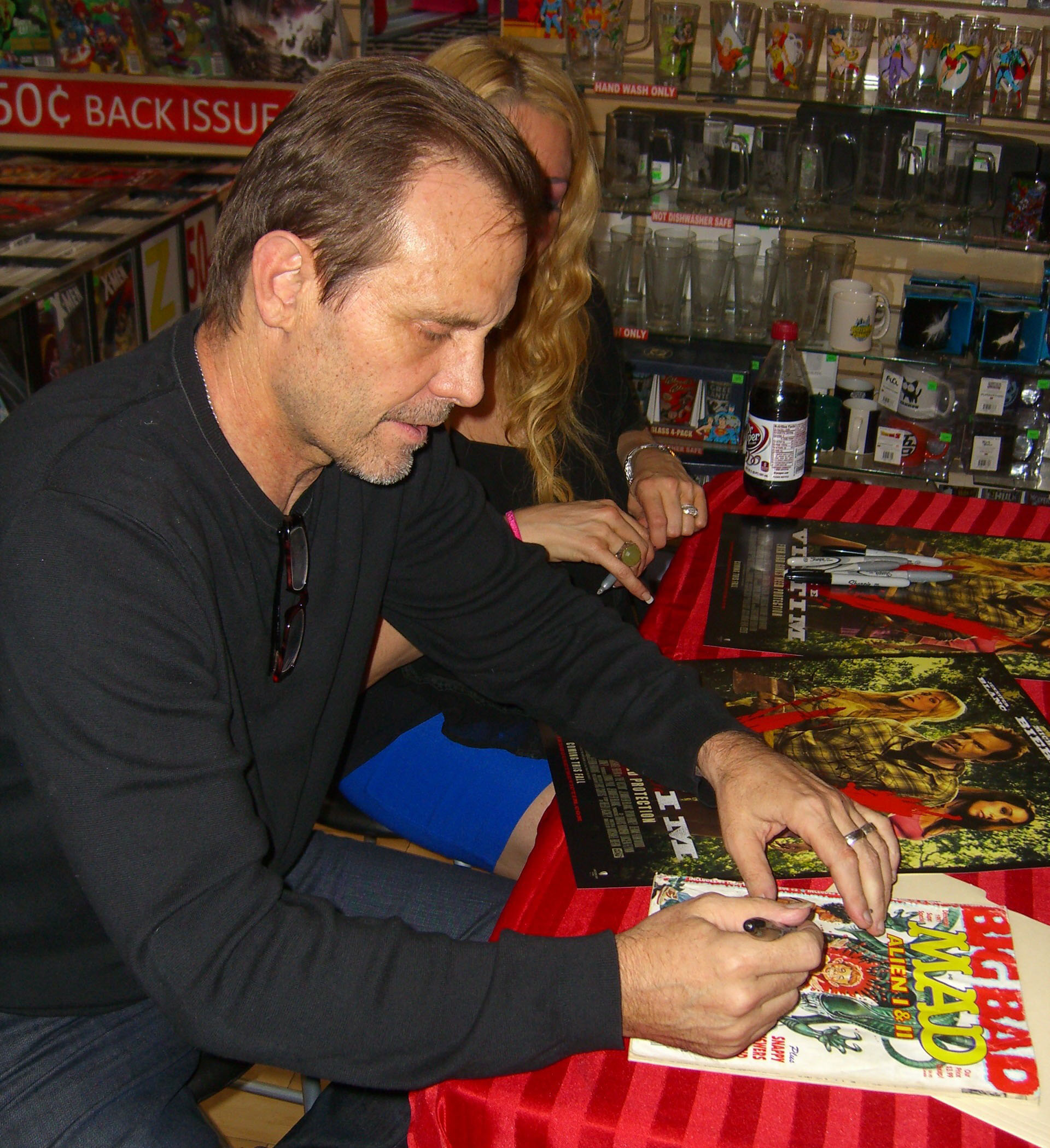 Actor/director Michael Biehn (The Terminator, Aliens, The Abyss) and his wife, actress Jennifer Blanc, at an August 23, 2012 appearance at Midtown Comics Downtown in Manhattan to promote Biehn’s directorial debut, the horror film The Victim, in which both Biehn and Blanc star. In the photo, Biehn is signing a copy of Mad #268 (January 1987), whose cover feature was a parody of the film Aliens, in which Biehn starred. The woman seated next to Biehn is his wife, actress Jennifer Blanc, who also stars in The Victim. This photo was created by Luigi Novi. It is not in the public domain, and use of this file outside of the licensing terms is a copyright violation.